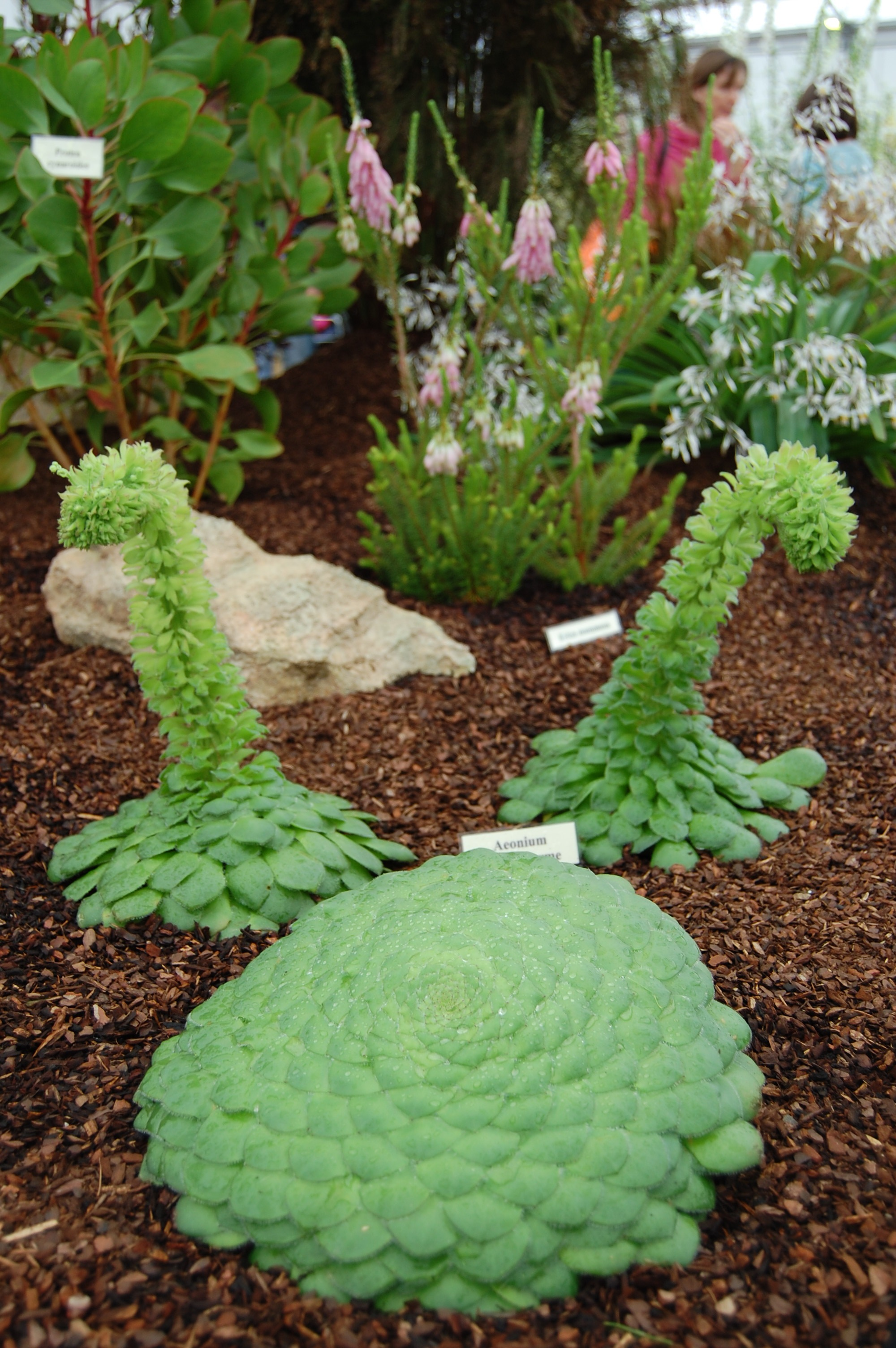 Three specimens of Aeonium tabuliforme, two with flower spikes, on display at the BBC Gardeners' World show.